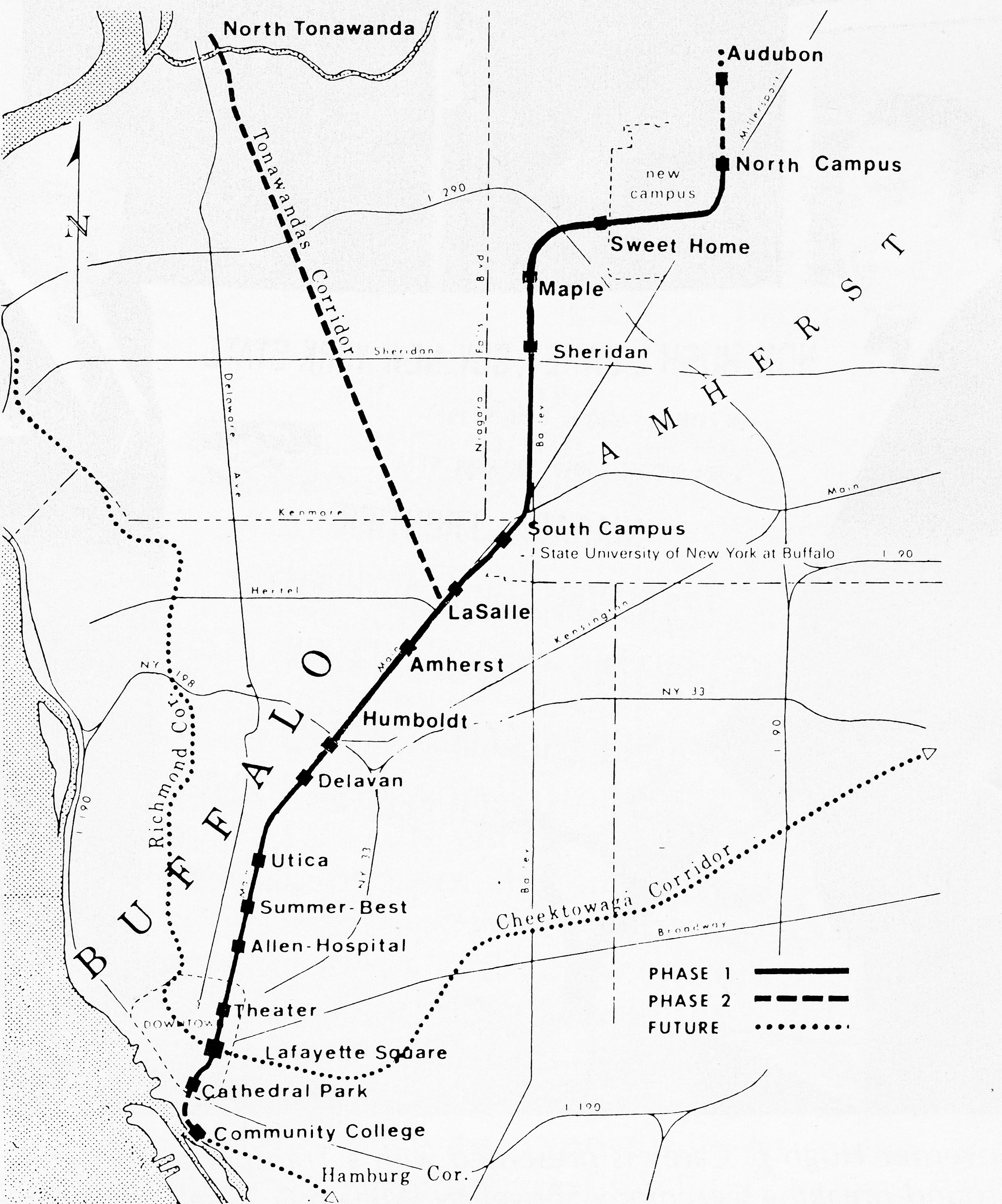 Map from NFTA annual report. Original caption: "Projected rail transit route alignment."